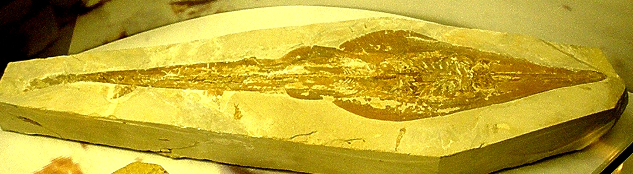 Fossil of Rhinobatos hakelensis, an extinct ray